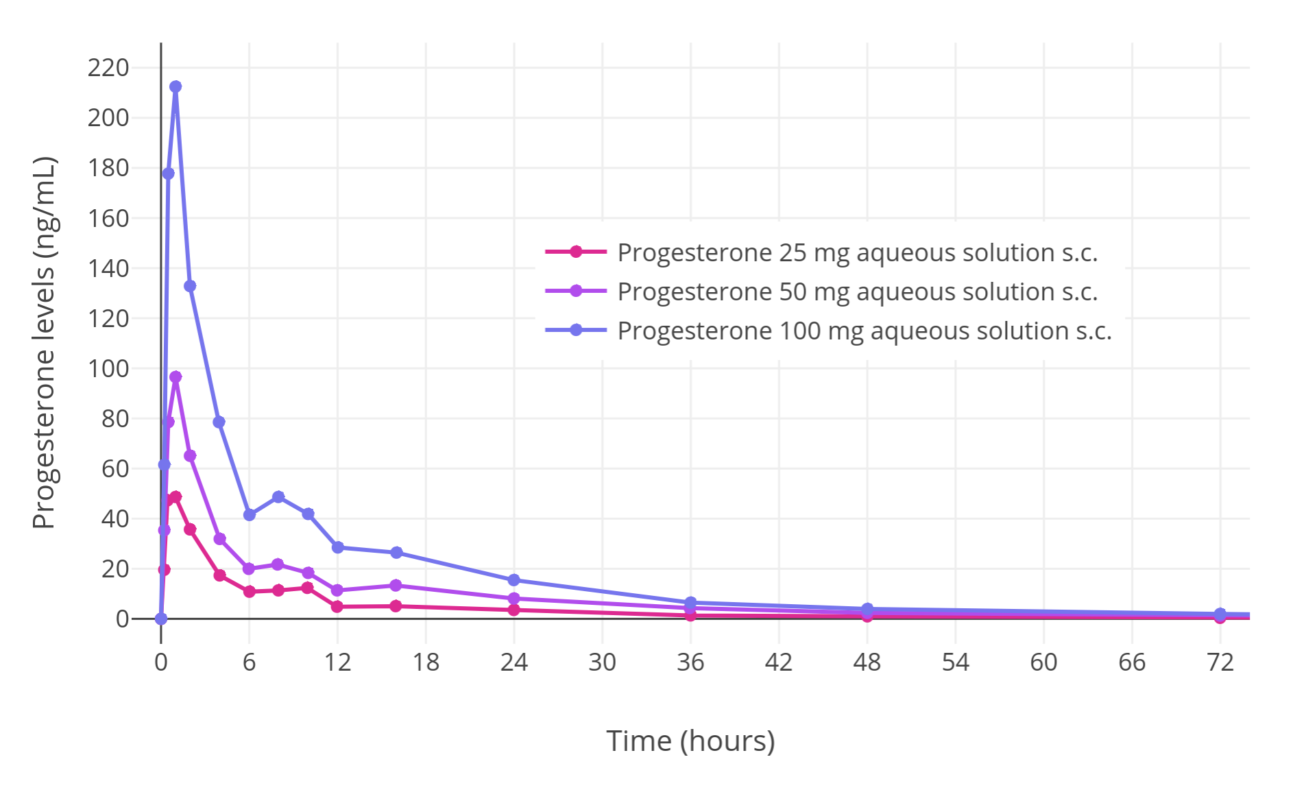 Levels of progesterone (ng/mL) following a single subcutaneous injection of an aqueous solution of 25, 50, or 100 mg progesterone complexed with β-cyclodextrin (Prolutex) in postmenopausal women. Source of the values: (November 2015). "Pharmaceutical and clinical development of a novel progesterone formulation". Acta Obstet Gynecol Scand 94 Suppl 161: 28–37. PMID 26342177.